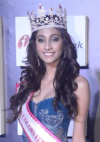 Anukreety Vas at Times Now NRI of the year award, 2018